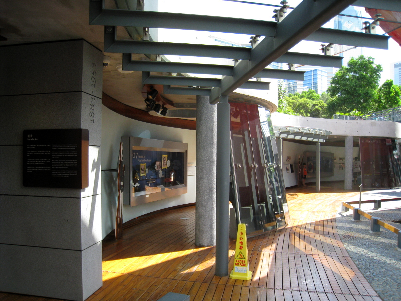 The Fireboat Alexander Grantham Museum Interior